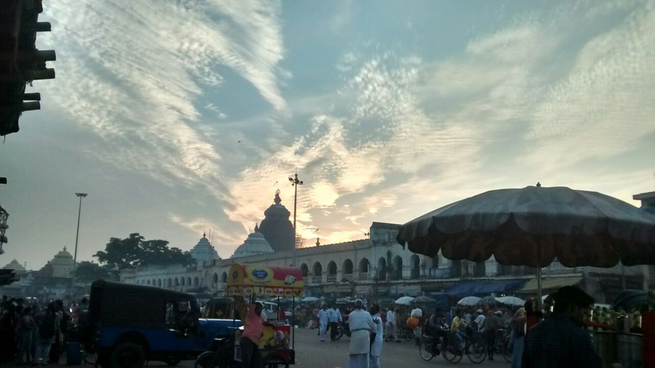 puri temple